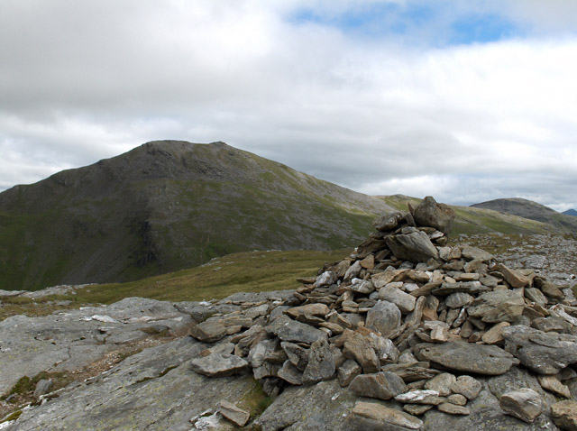 Beinn a' Chleibh. The summit (916 metres). Looking across to Ben Lui and Ben Oss.